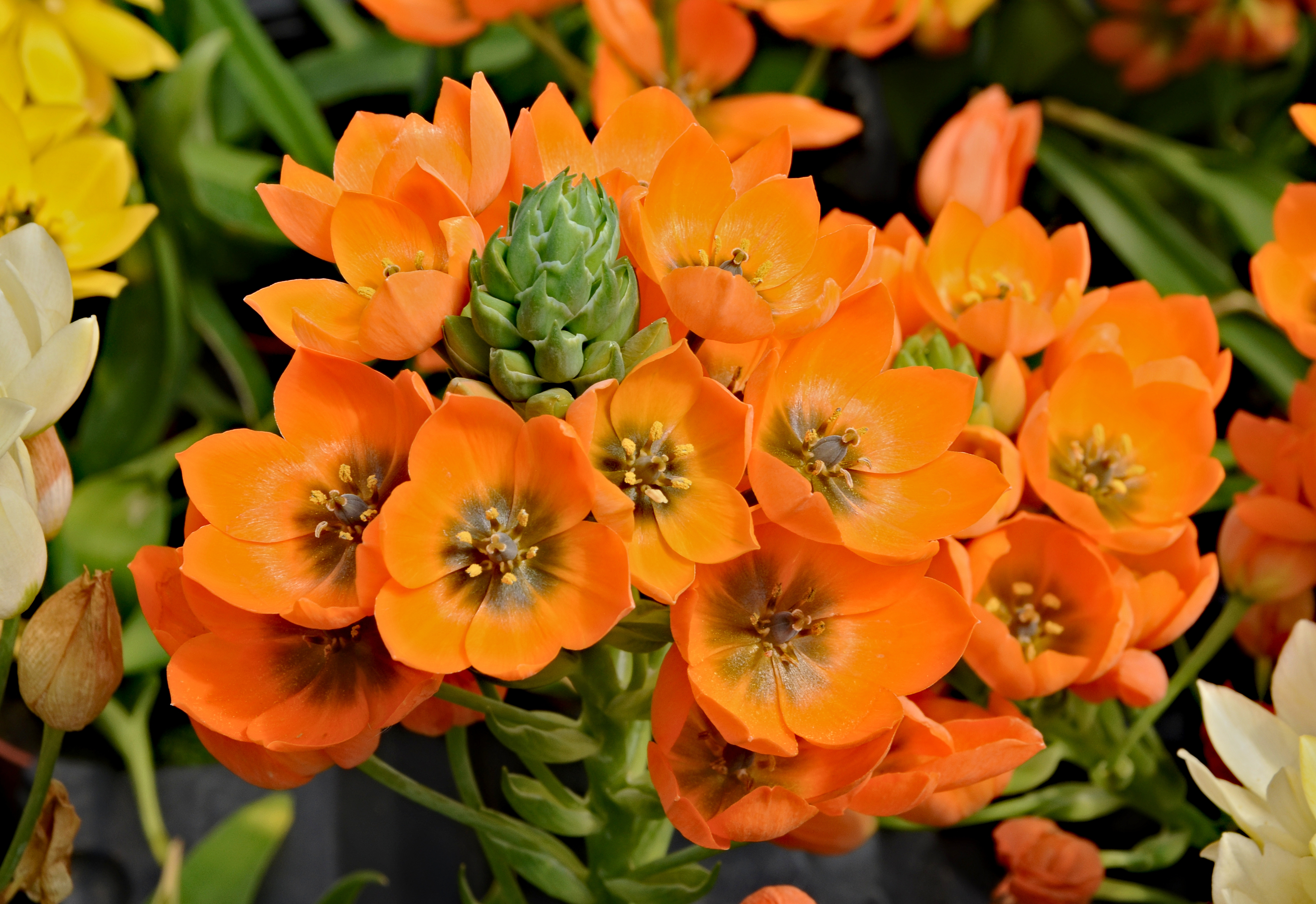 Dubium (Ornithogalum dubium), in a greenhouse, France..